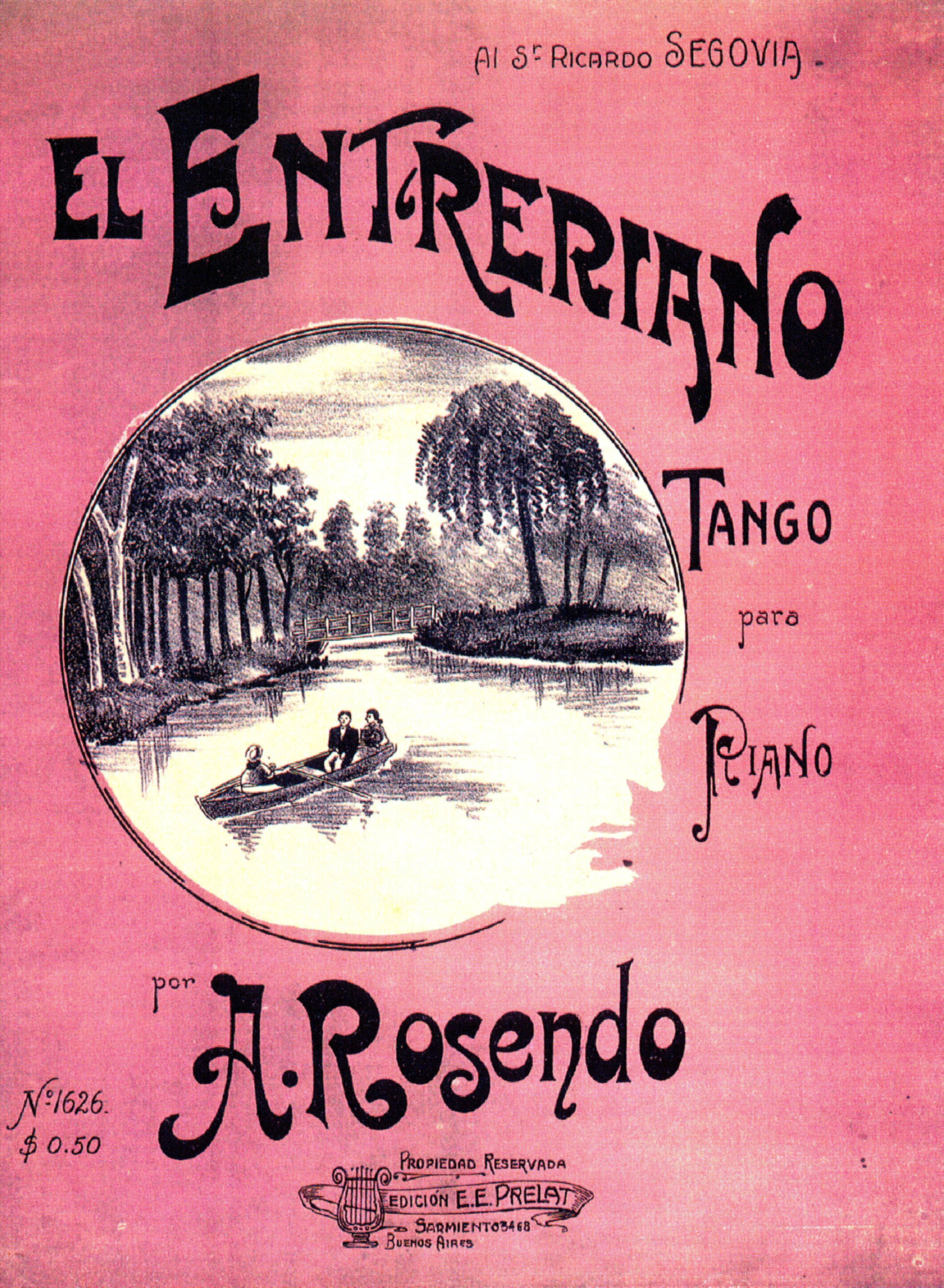 The score´s title of the first printed tango